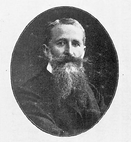 German sculptor Cuno von Uechtritz-Steinkirch ( * 3 July 1856 in Wrocław, † 29. July 1908 in Berlin)